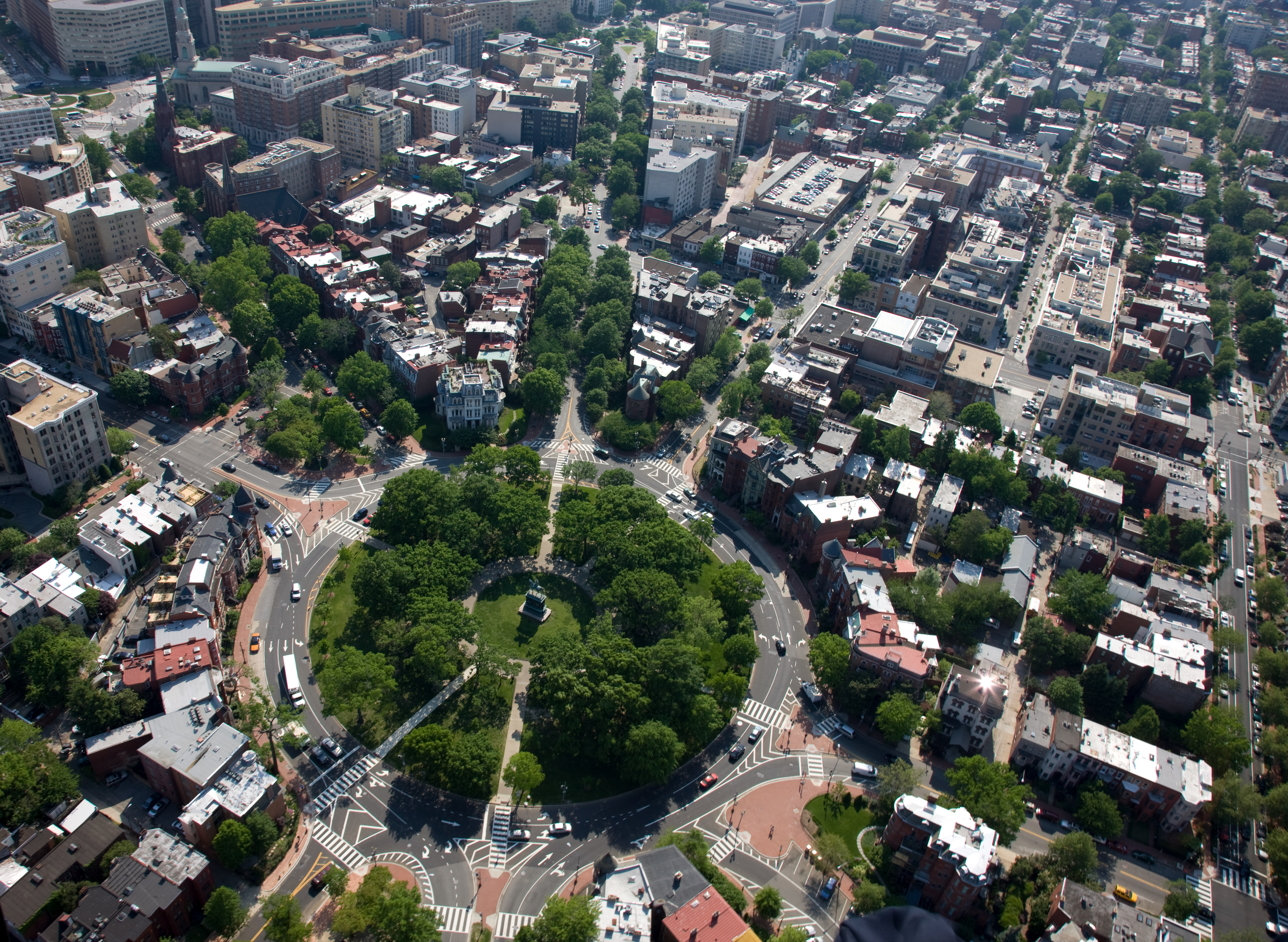 An aerial view – facing southwest – of the Logan Circle neighborhood in Washington, D.C.